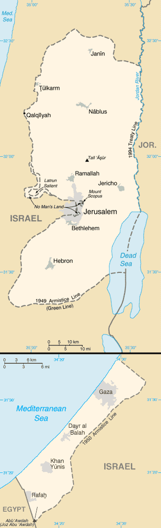 Map of West Bank and Gaza Strip